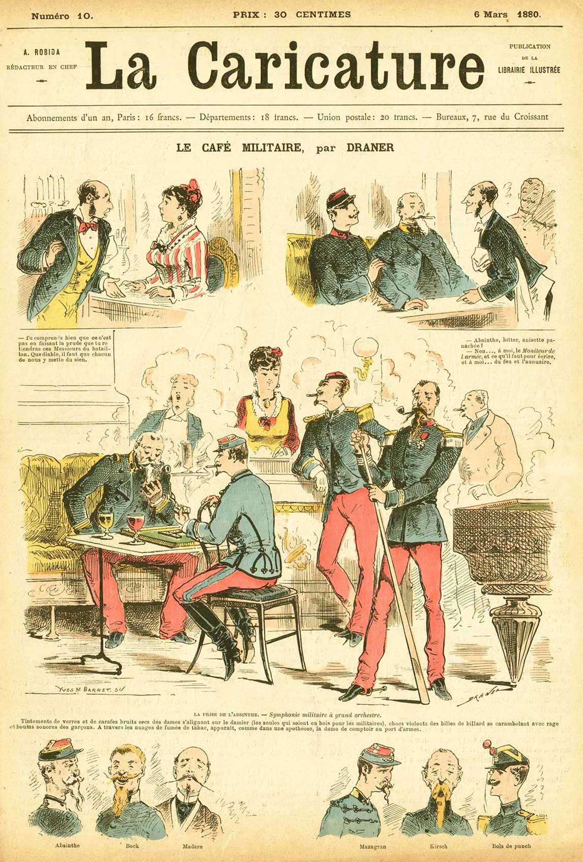 Le Cafe Militaire from La Caricature